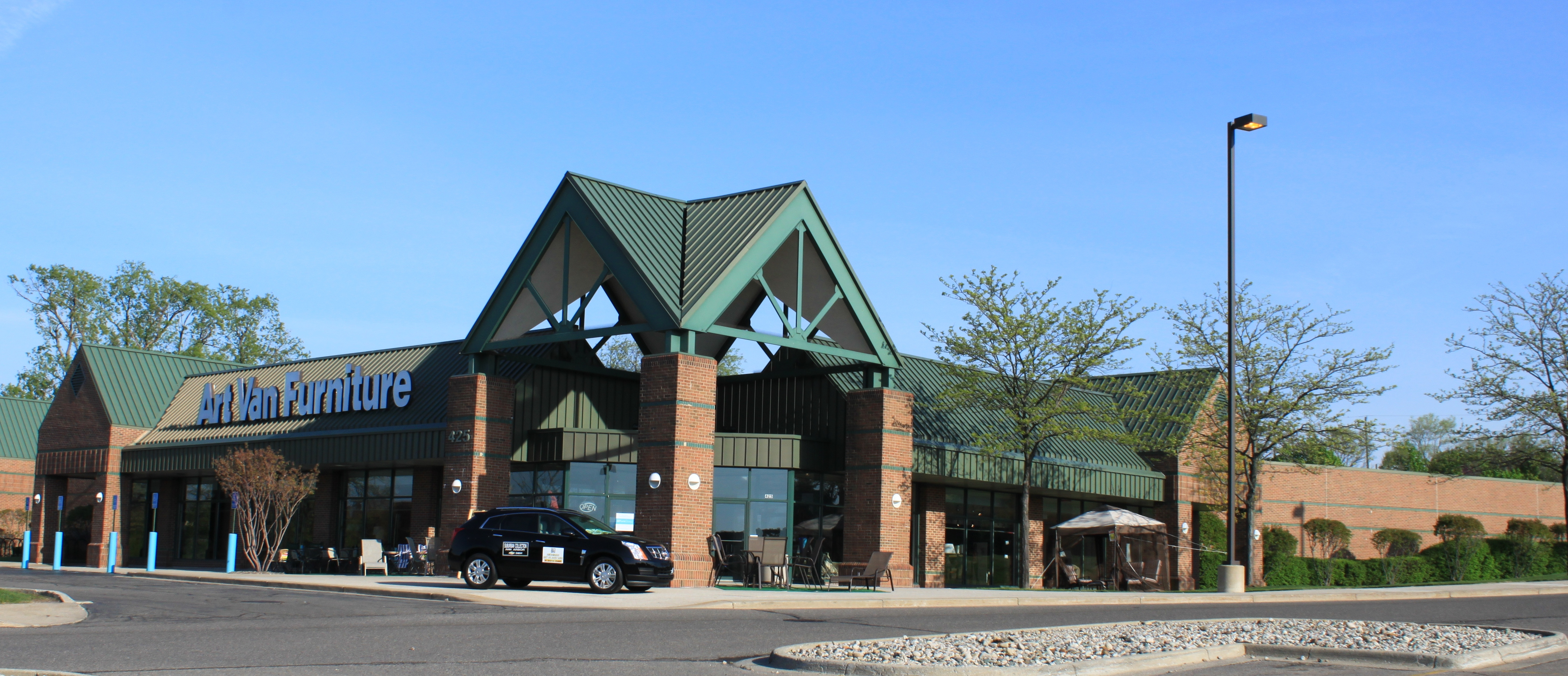 Art Van Furniture store, 425 E. Eisenhower Pkwy., Ann Arbor, MI 48108